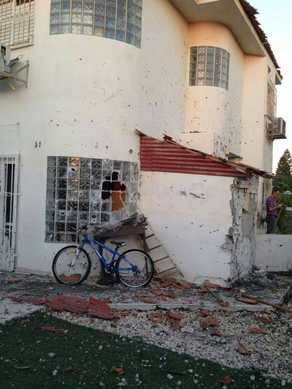 House in Beersheba hit by a Grad missile fired from the Gaza Strip, July 10, 2014